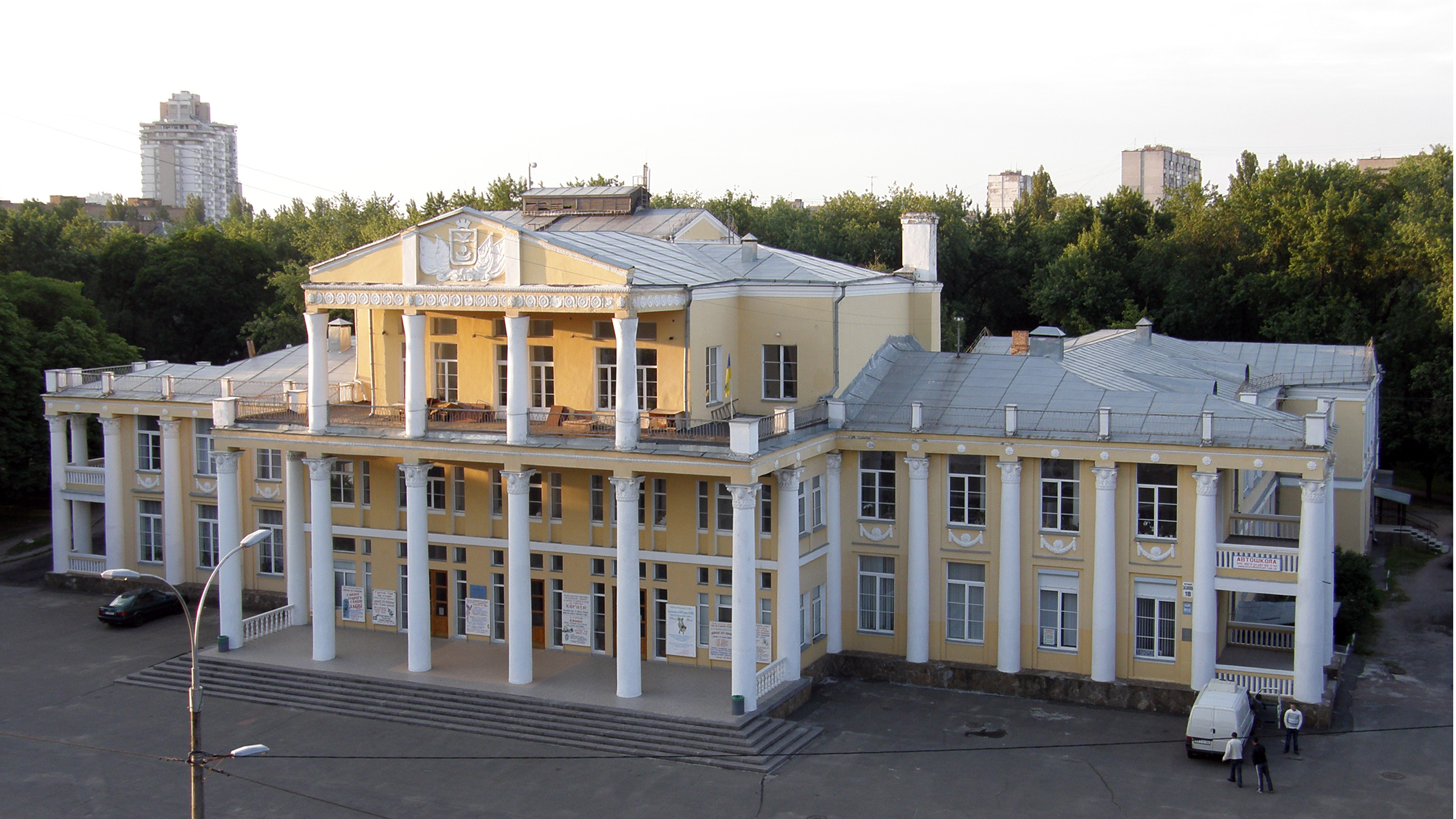 Darnytsia Palace of Culture, Kyiv, Ukraine